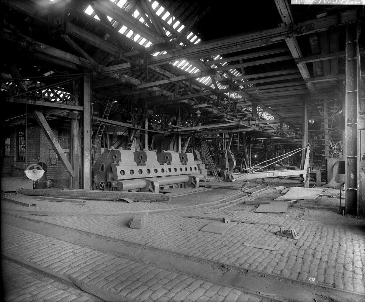 The John Brown & Co Ltd Shipbuilding and Engineering Works at Clydebank showing the interior of the Platers' Machine Shed in the East Yard. In the centre of the image is a Hugh Smith & Co hydraulic cold-flanging machine.